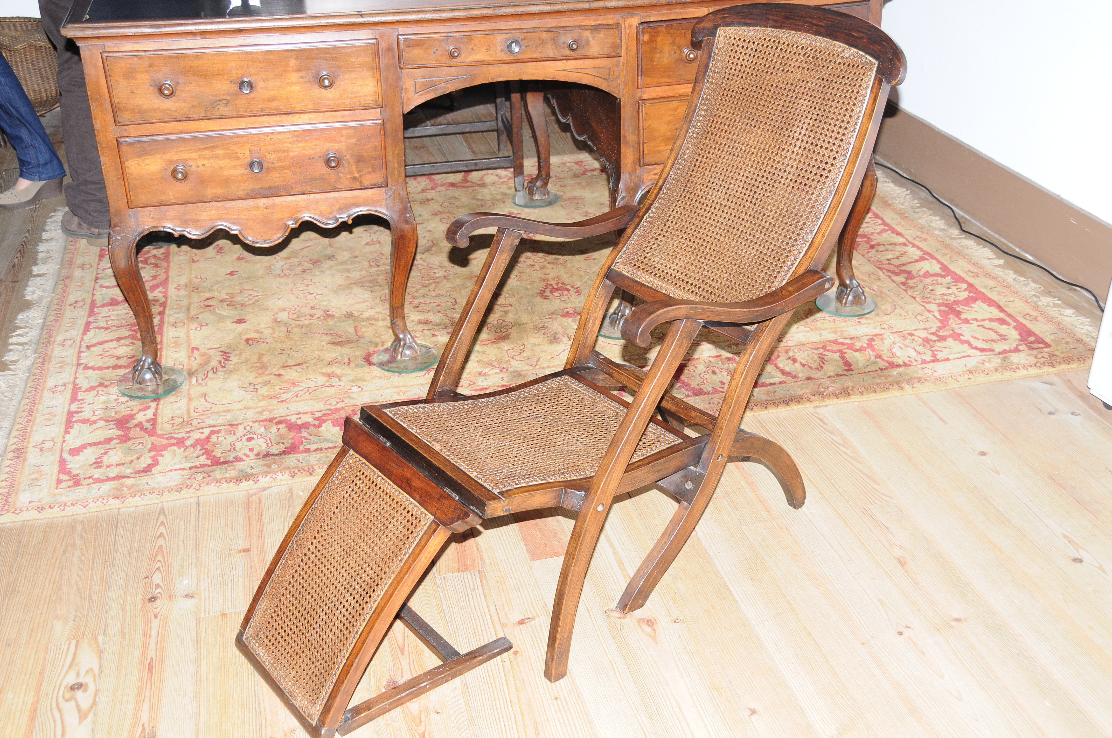 Office in Camilo Castelo Branco House, Famalicão, Portugal.